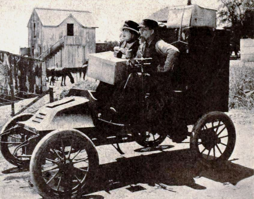 Still from the American drama film Eve in Exile (1919) with Charlotte Walker, on page 73 of the March 20, 1920 Exhibitors Herald.